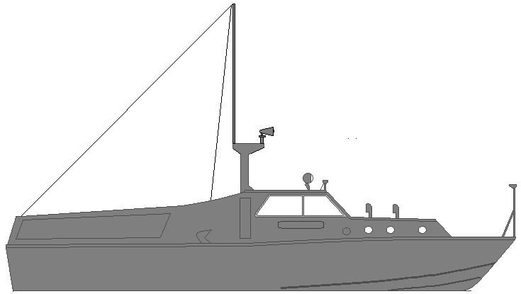 Tongan Naval Ship "Ngahau Siliva" P102